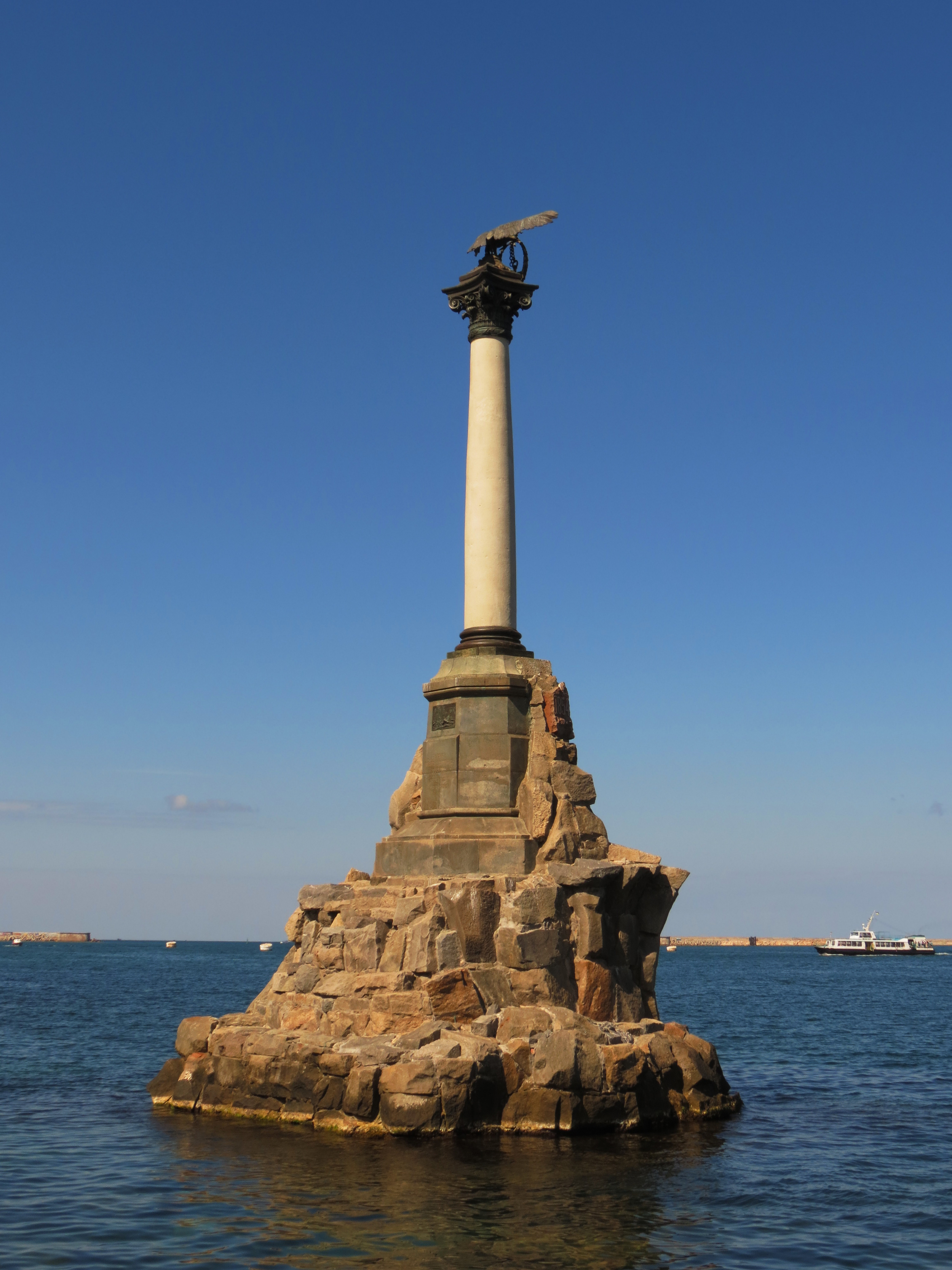 Monument to flooded ships. Sevastopol